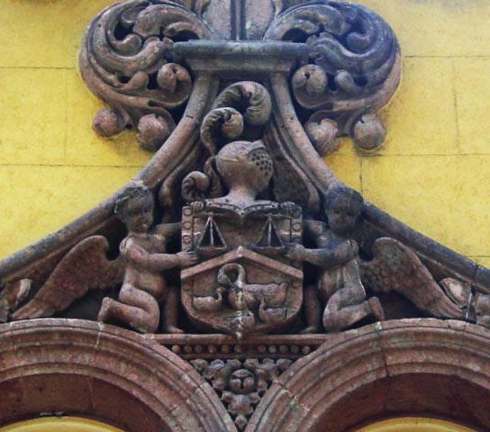 Front View detail, El Parian, Colonia Roma, Mexico City